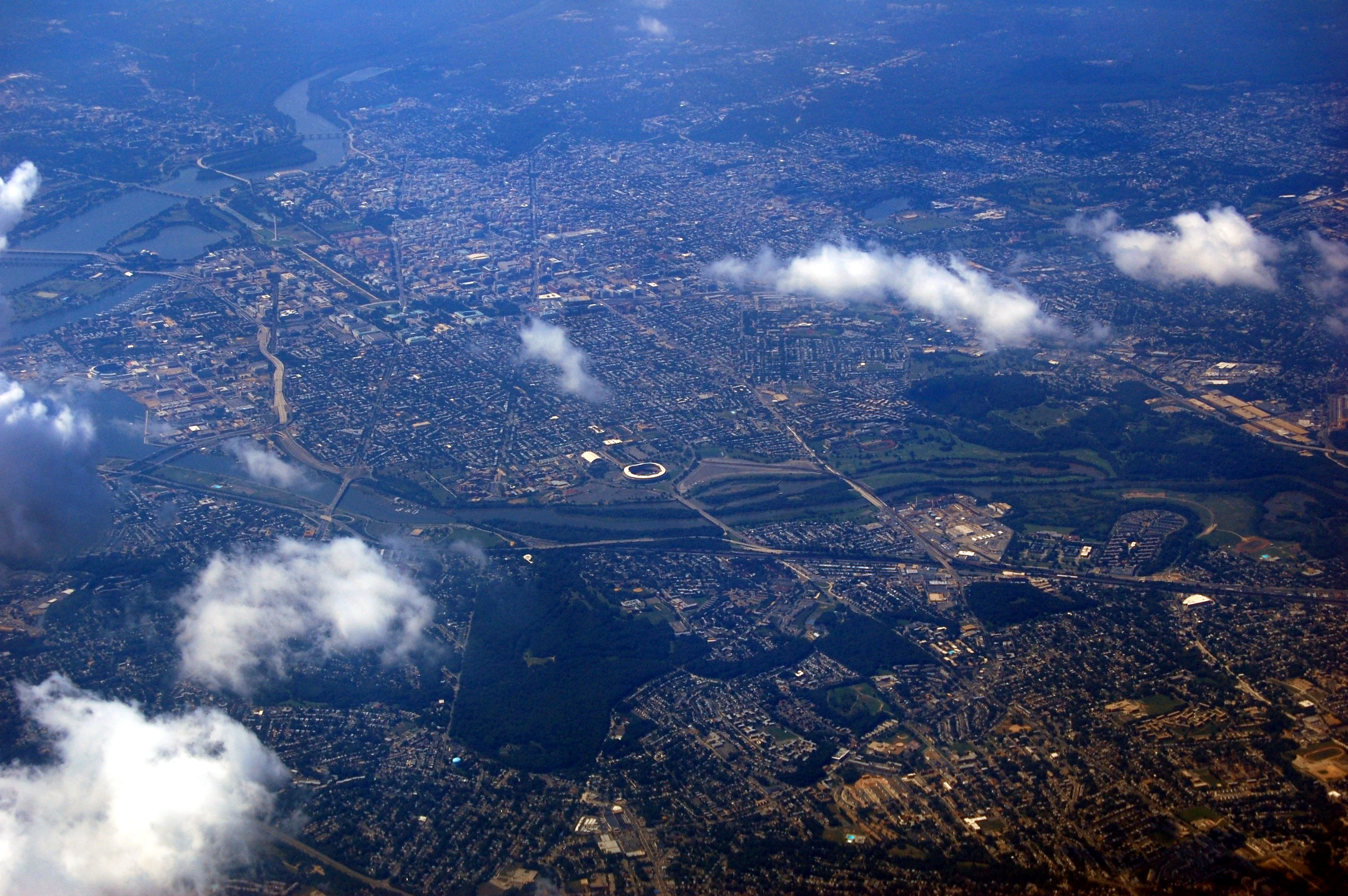 Aerial view downtown Washington, DC, from the southeast. RFK Stadium, the US Capitol, the Mall, and Washington Monument are prominent with the Potomac River in the background, Anacostia River in the foreground. RFK Stadium at center.